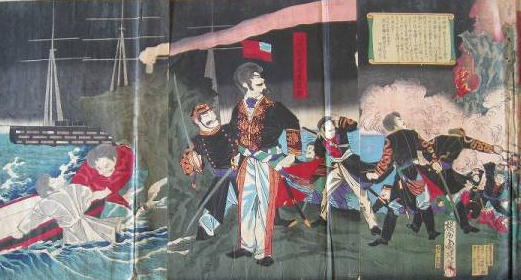 The Imo Incident (July 23, 1882) in Korea with Hanabusa Yoshitada as the central figure in this tryptich -- woodblock print